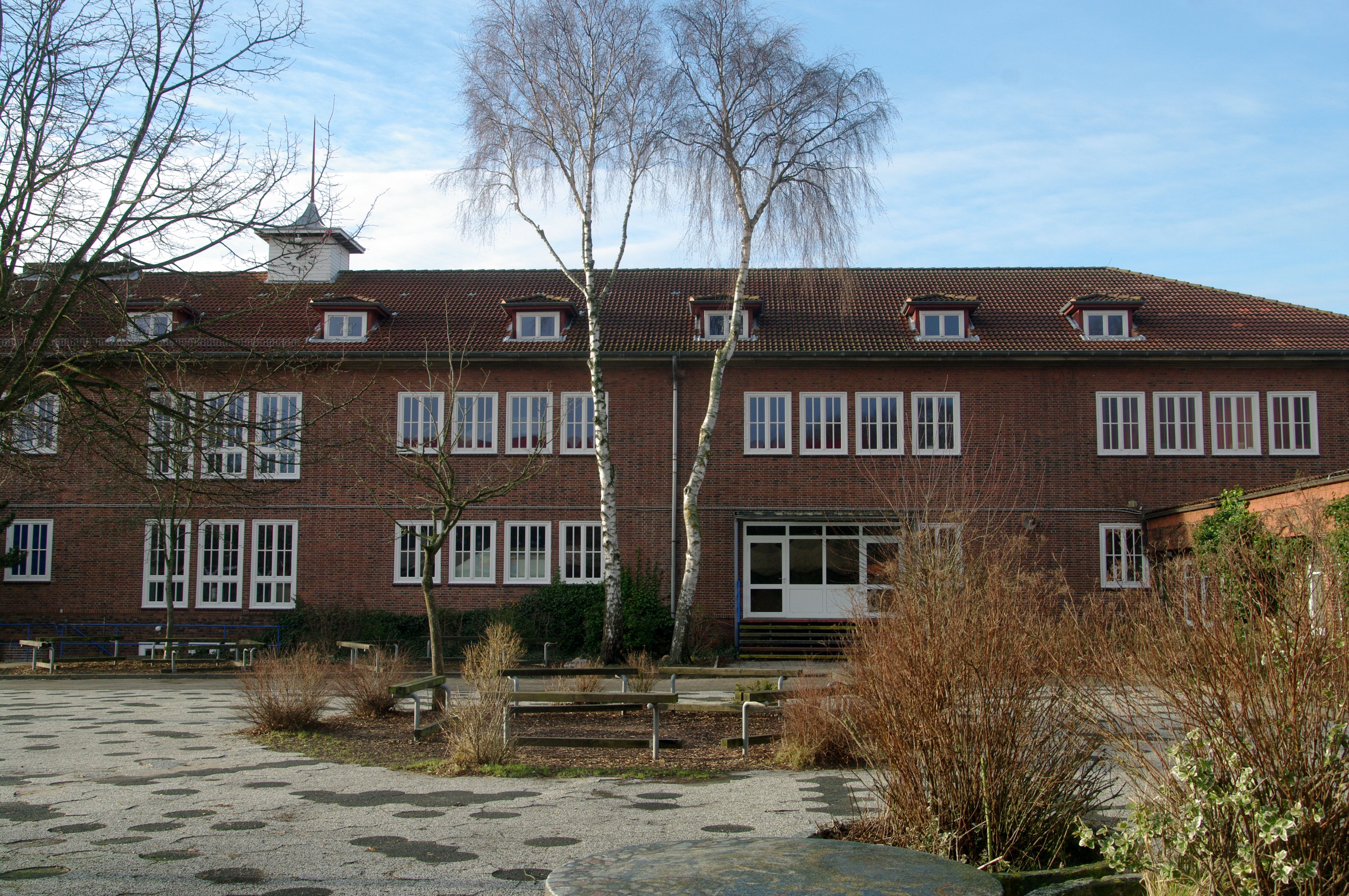 Wesselburen in winter